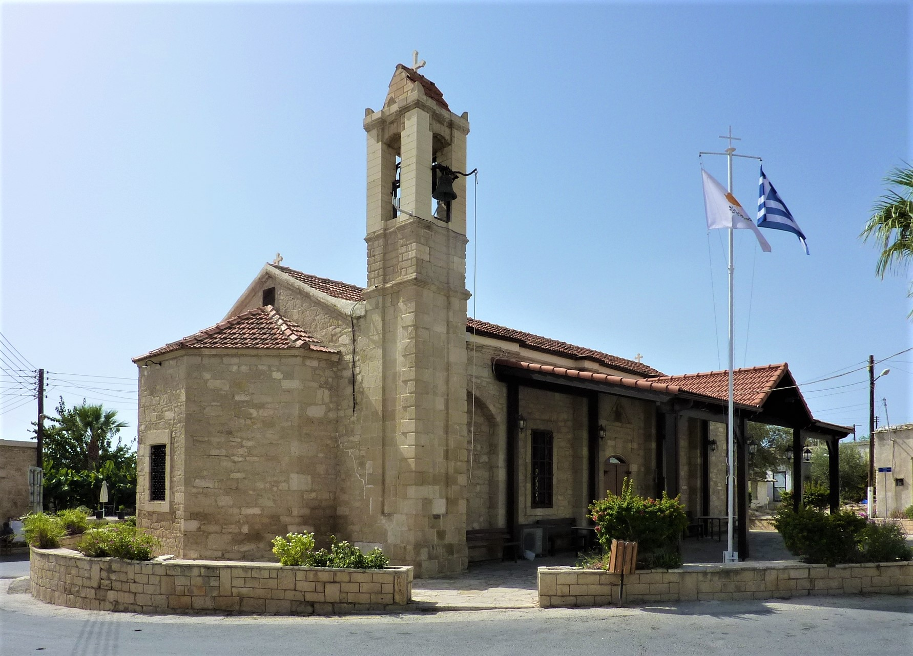 St Luke's Church, Kouklia, Cyprus